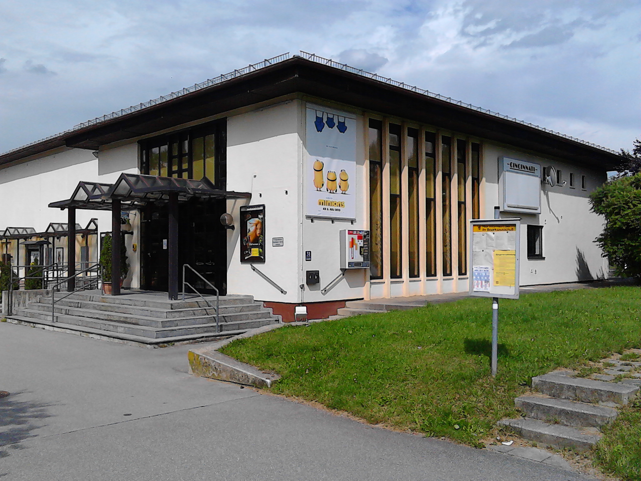 Cinema Cincinnati in Munich